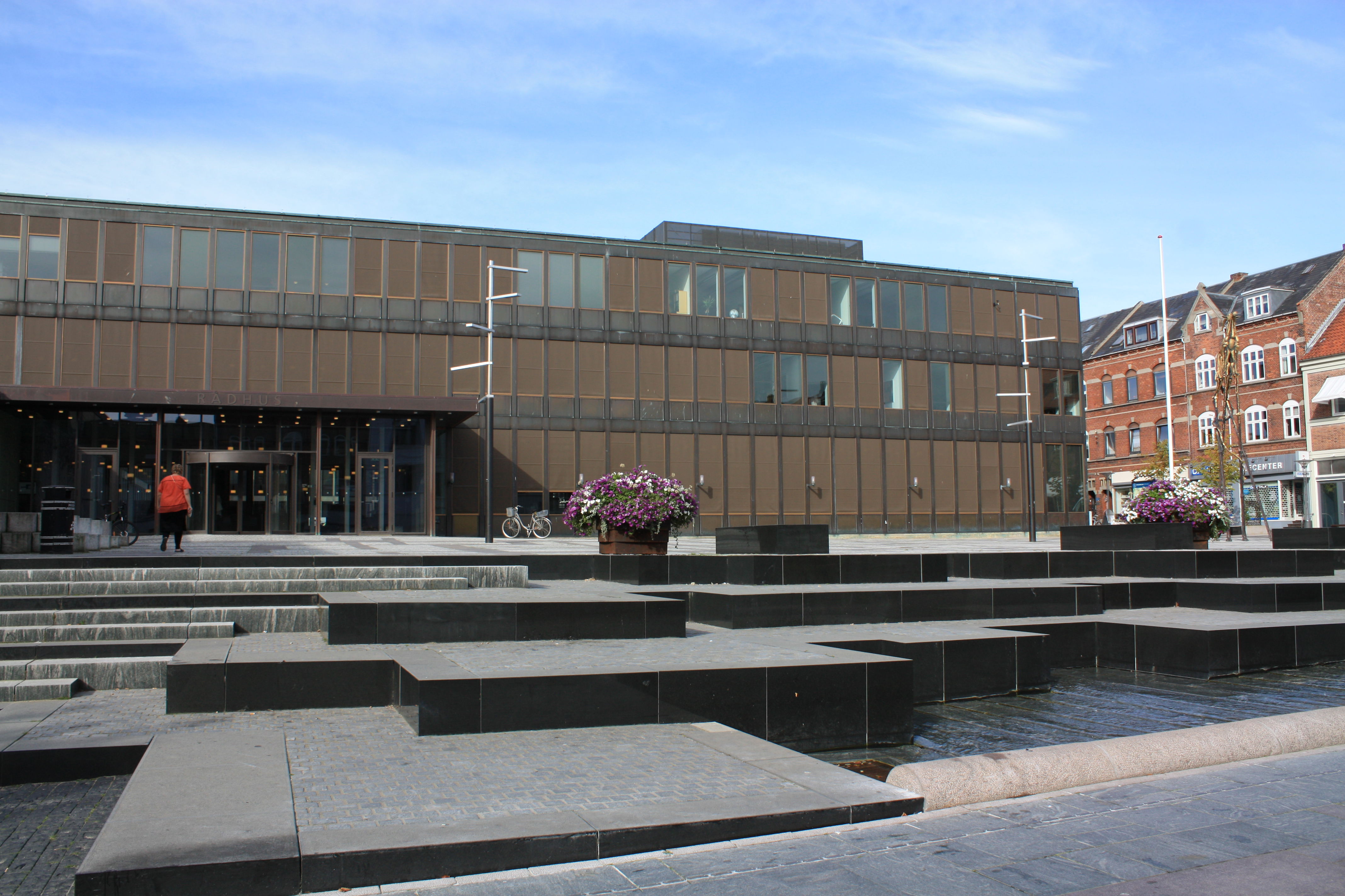 Fredericia Rådhus - Town Hall in Fredericia